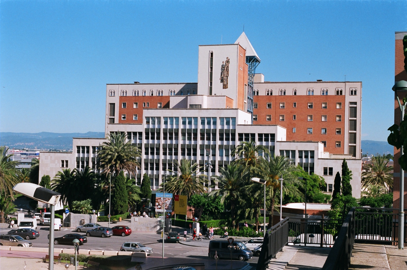 Hospital John the XXIII (Hospital universitari de Tarragona Joan XXIII) Tarragona, Spain